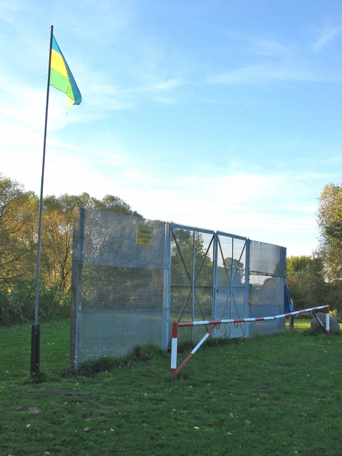 memorial on German border in Rüterberg near Dömitz